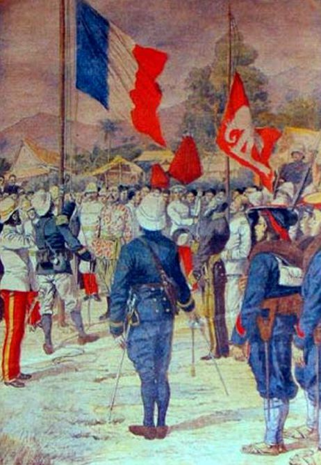 Occupation of Trat by French troops in 22 Janvier 1904.